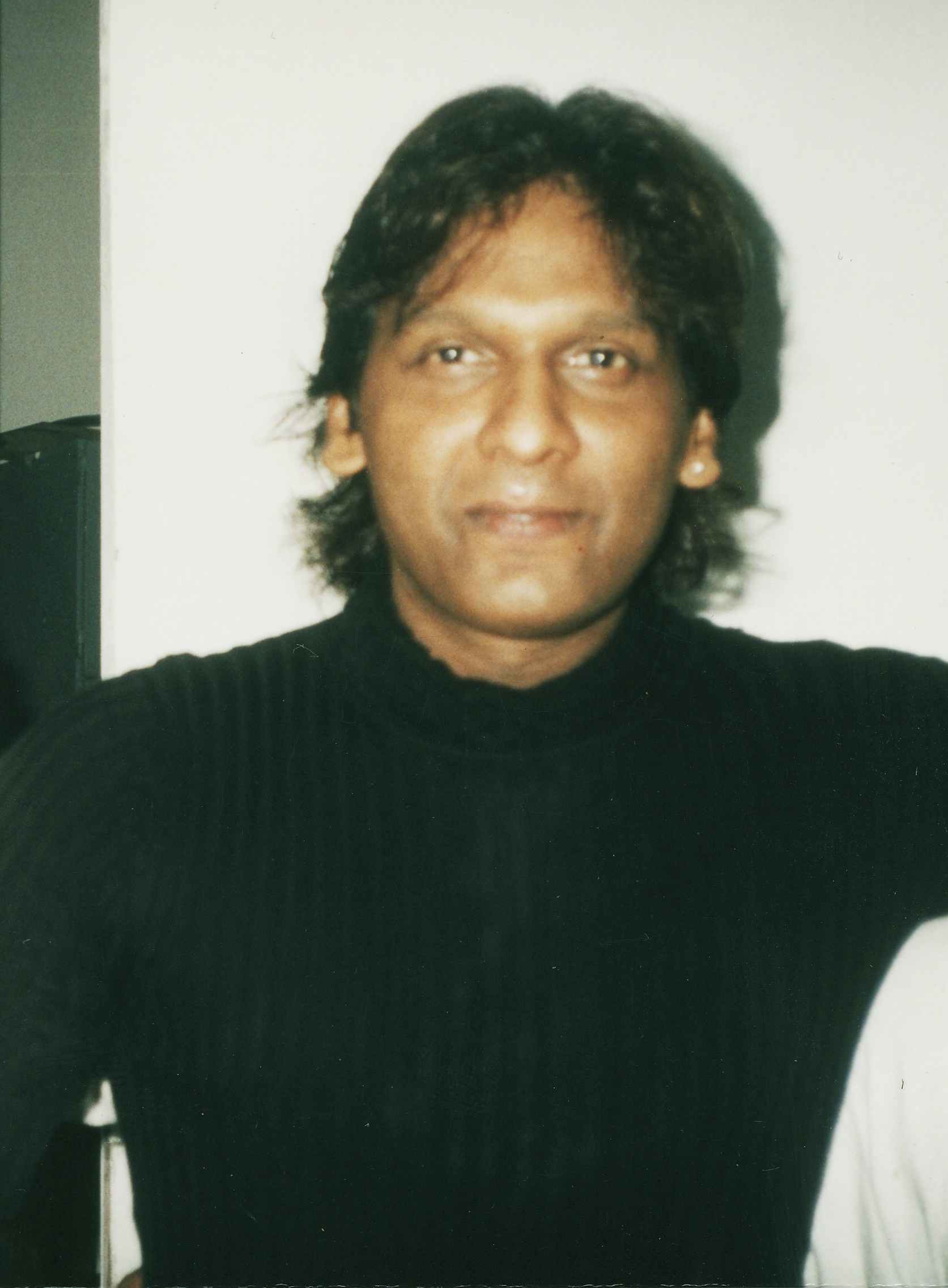 ଓଡ଼ିଆ: Vinod Rathod (Bollywood Play Back Singer) This media file is uploaded with Odia loves Wikipedia